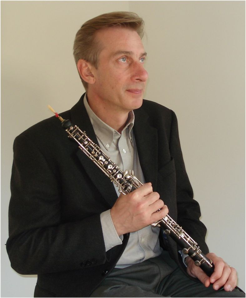 Niels Eje with Oboe